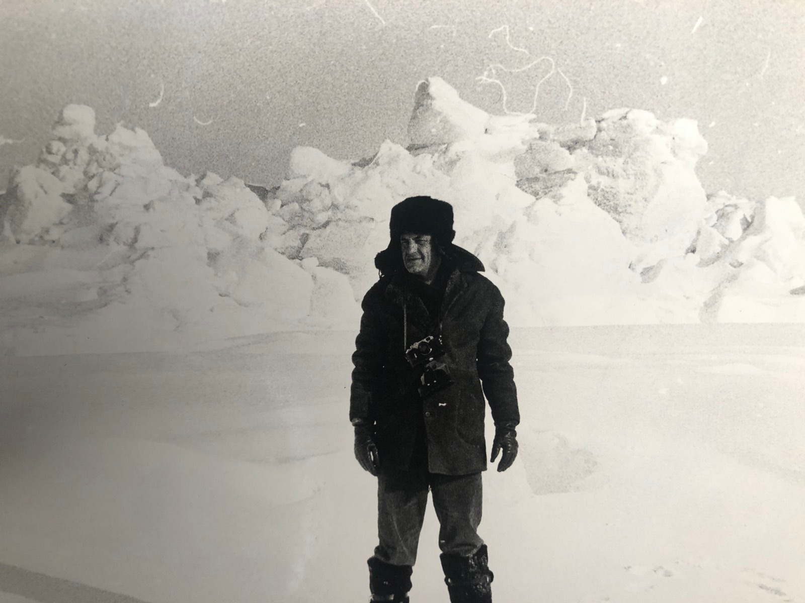 Mirko Bojic, Serbian journalist and reporter, on the SP-23 iceberg in the North Atlantic.